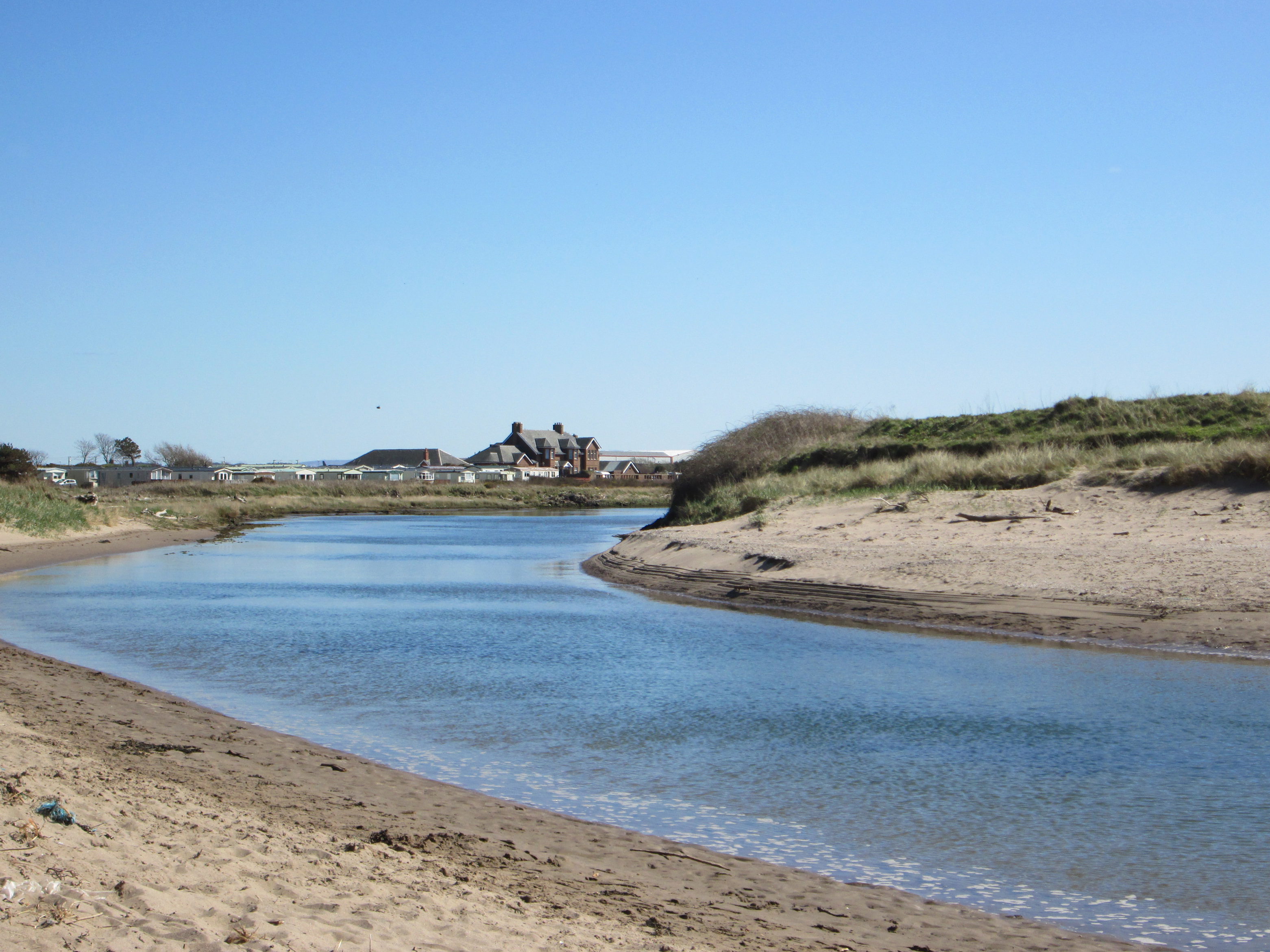 Caravan site seen from the estuary of the Pow Burn